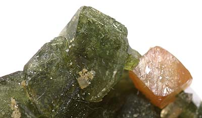 Svanbergite, Uvite Locality: Brumado, Bahia, Brazil Size: miniature, 6 x 3 x 3 cm Svanbergite on Uvite Tourmaline A very fine and unusually attractive display specimen of svanbergite crystals to 6mm on matrix of contrasting green uvite. The Svanbergite is large and well-formed, and the perch on uvite is unusual. ex. Carlos Barbosa